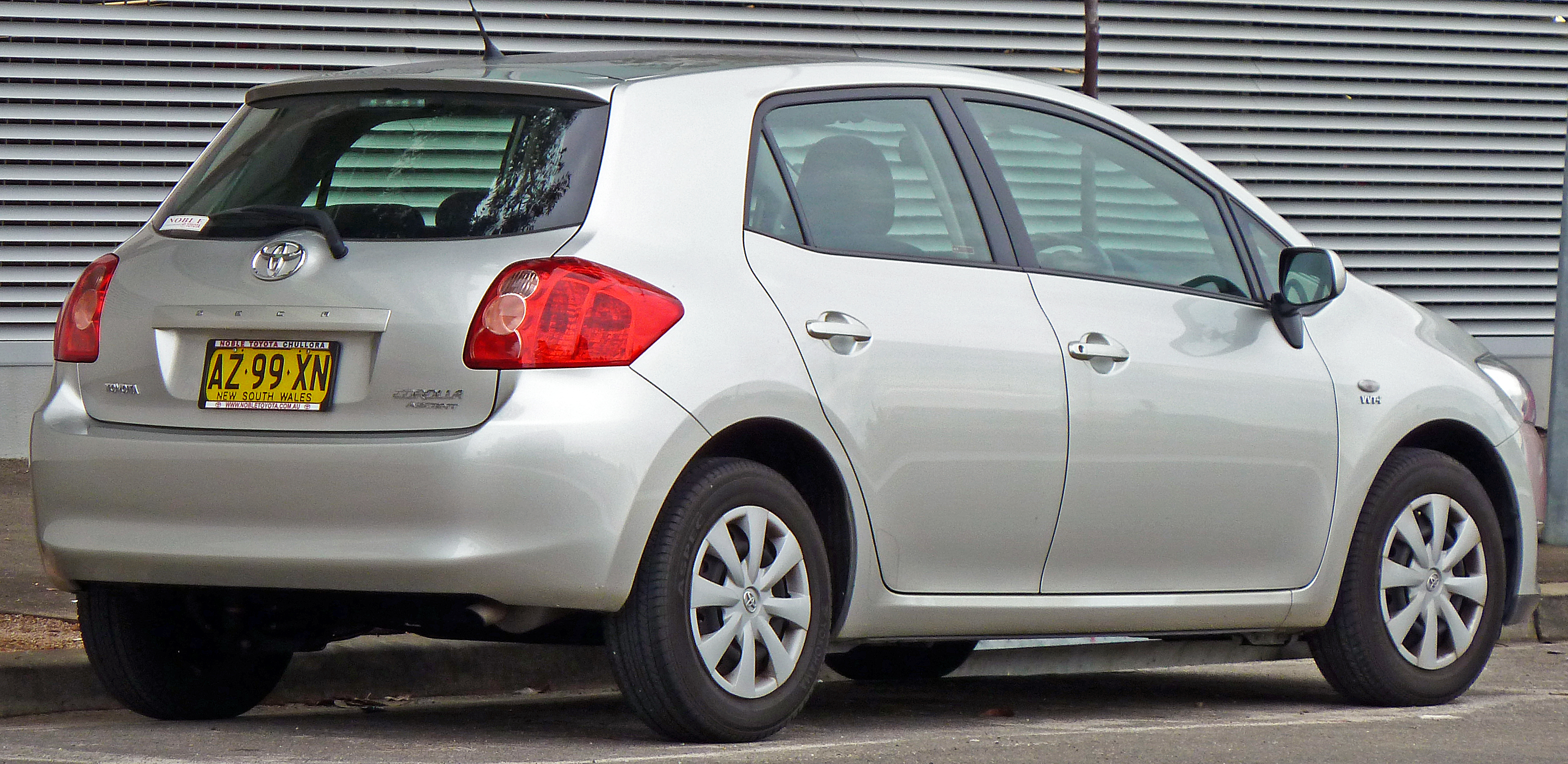 2008 Toyota Corolla (ZRE152R) Ascent 5-door hatchback. Photographed in Zetland, New South Wales, Australia.